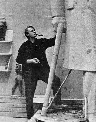 Sculptor Veikko Leppänen in studio, probably in early 1960s since the J K Paasikivi statue he's working on here was revealed in Lahti in 1962.